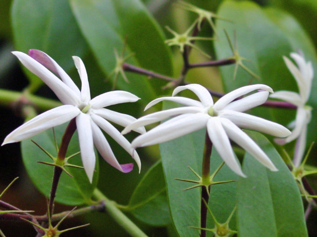 Jasminum laurifolium f. nitidum, or Shining Jasmine flowers. M. A. P. Accardo's plant and photo.